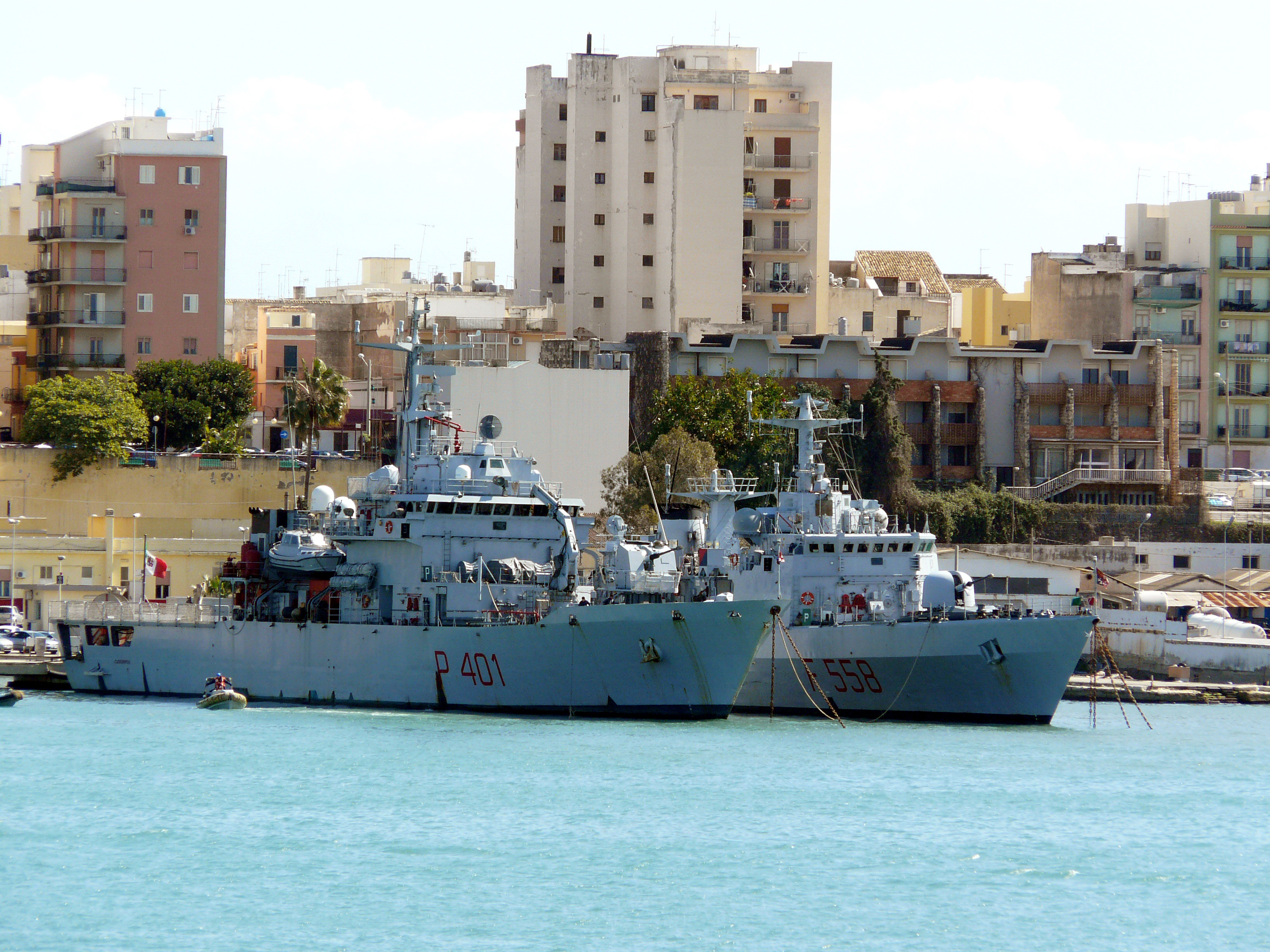 Italian Patrol boat Cassiopea near Minerva class corvette Sibilla